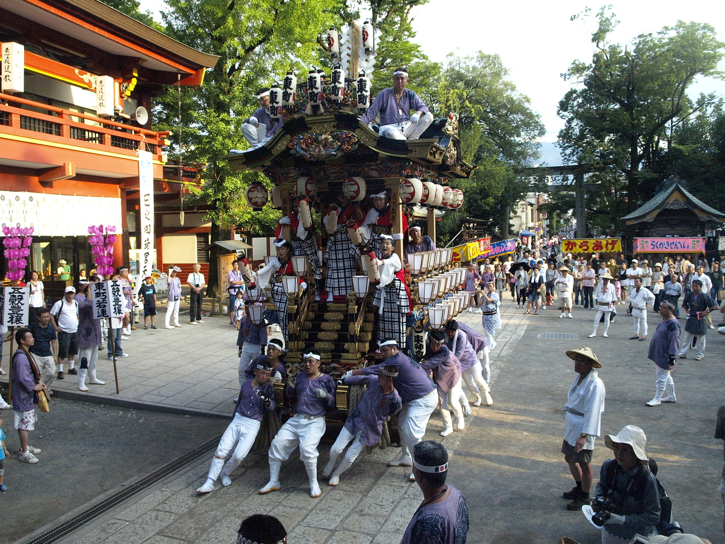 Chichibu Kawase Matsuri, a summer festival in the city of Chichibu, Japan.